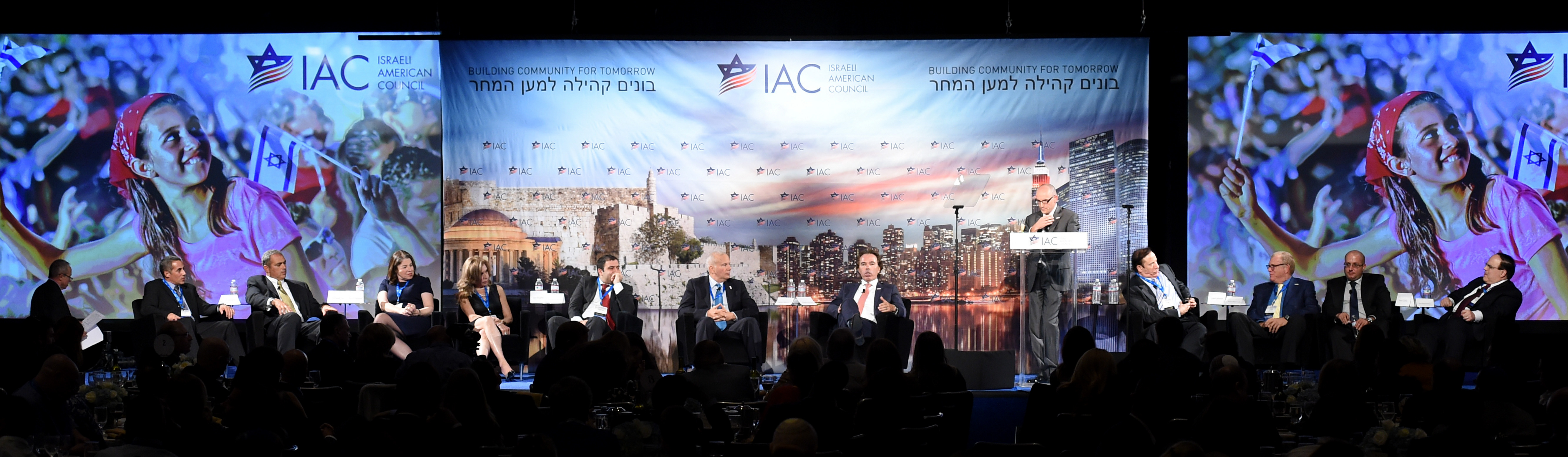 Israeli-American Council National Board in the inaugural Israeli-American National conference